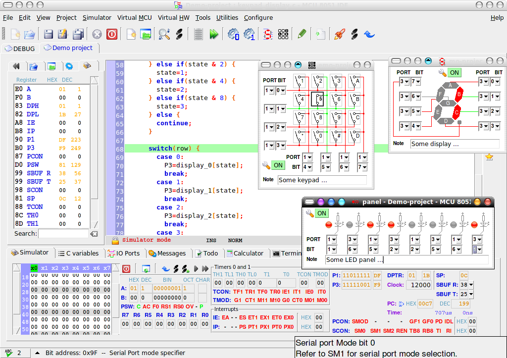 MCU 8051 IDE Snapshot